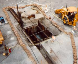 Picture of the installation of a PRB at Moffett Field